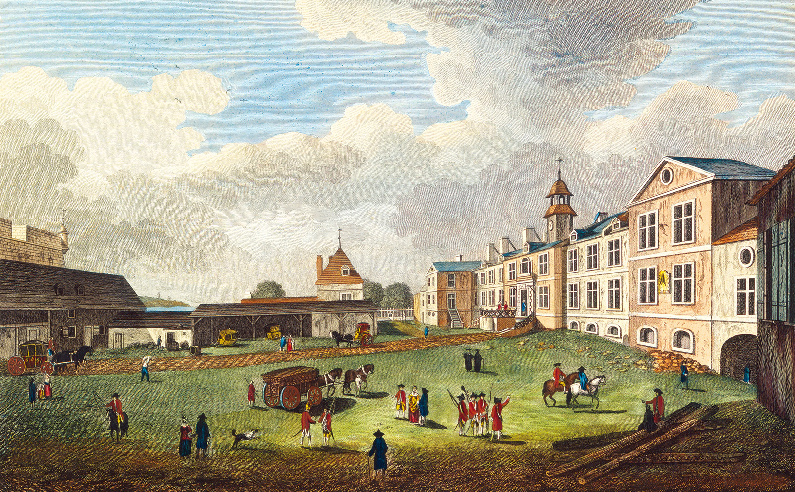 Palace of the Intendant of Quebec, 1759-1761. Hand-coloured engraving by William Elliot (1727-1766), after a painting by Richard Short (flourished 1750). Courtesy of the National Archives of Canada, (C360.)